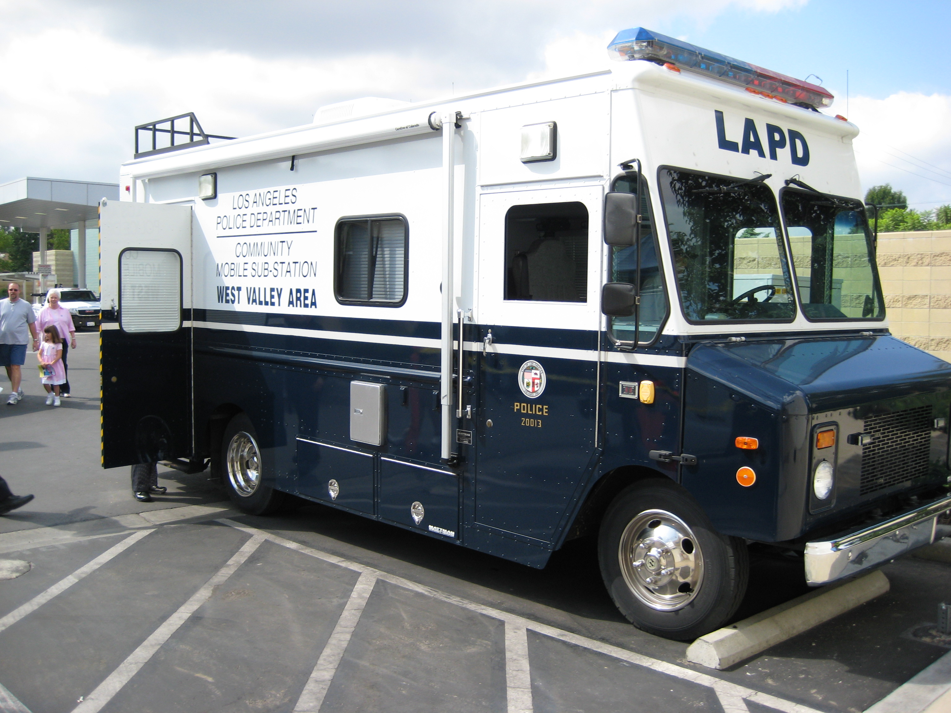 LAPD's Substation Unit Vehicle